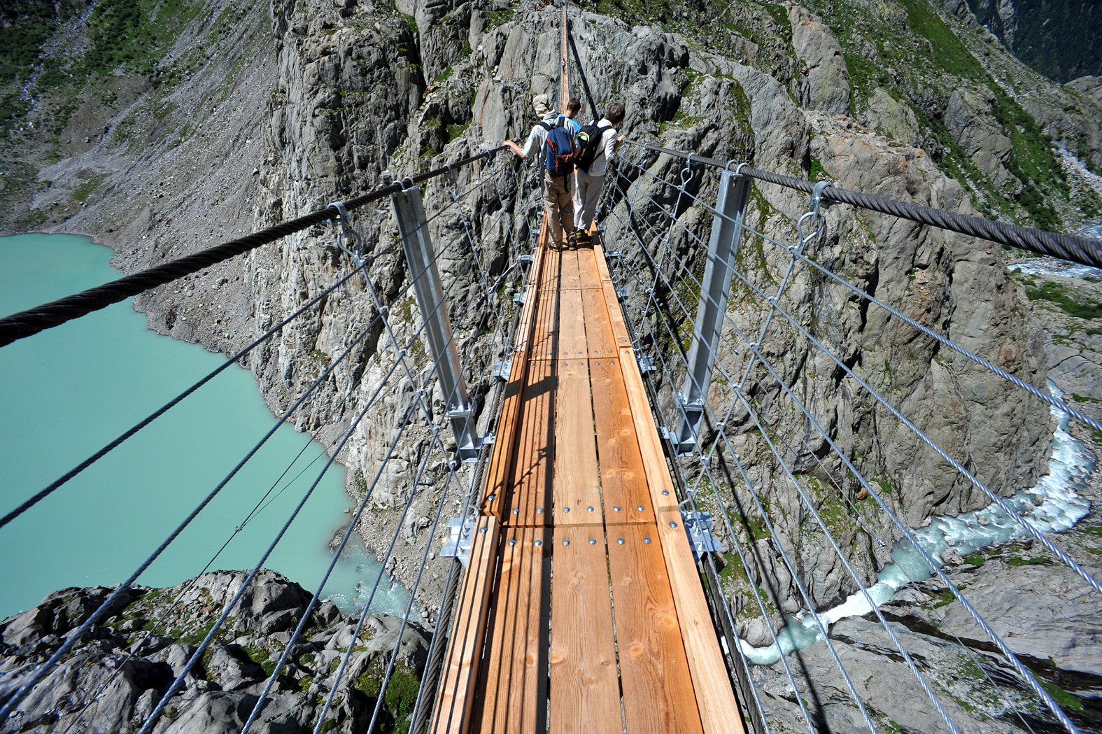 New Trift bridge, view to the glacier lake and the stream Triftwasser; Berne, Switzerland.